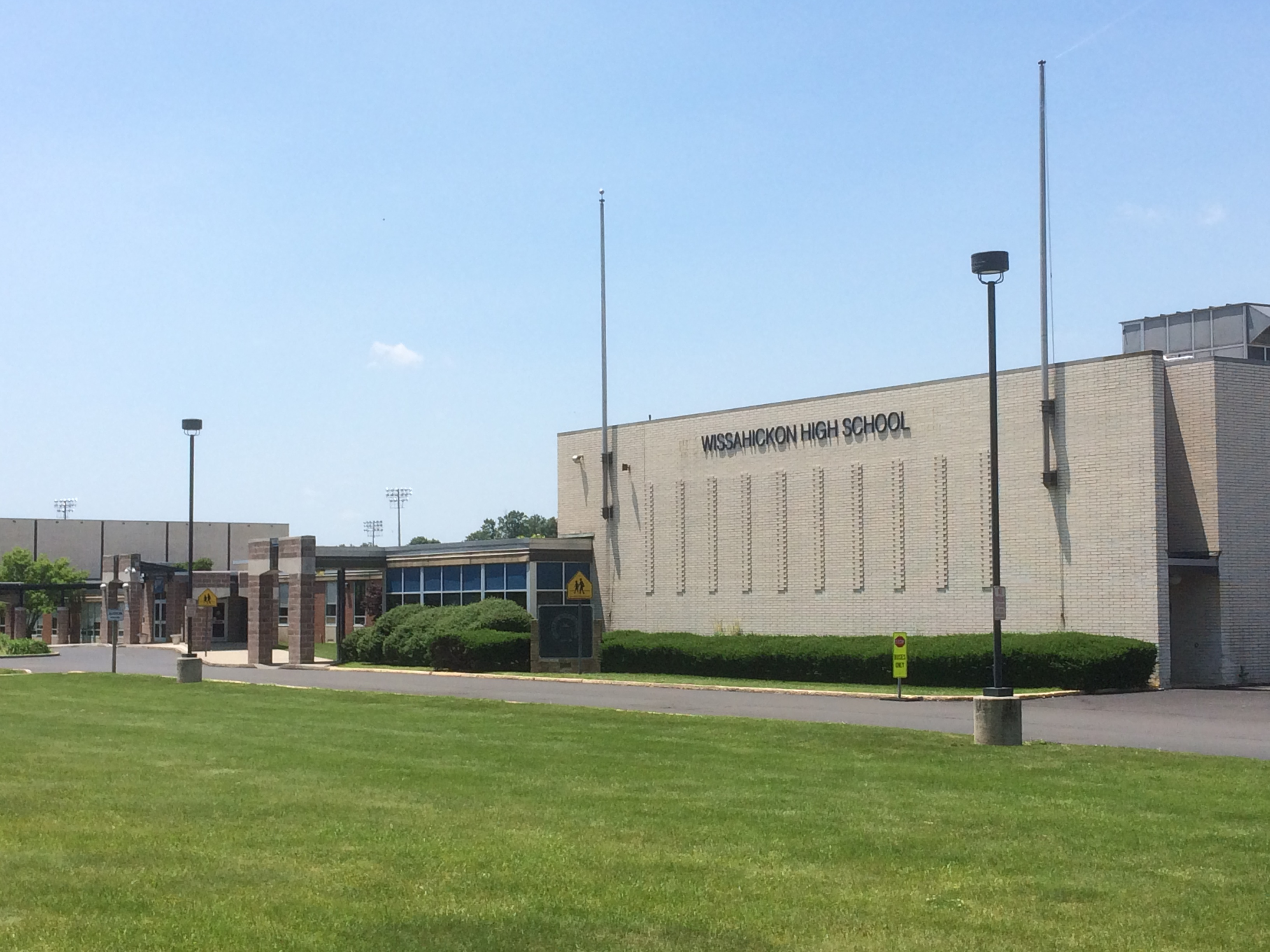 the front of the building